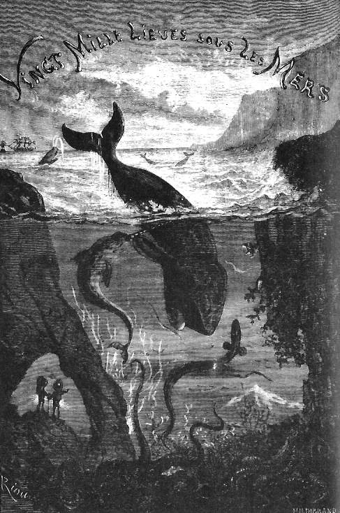 Zvi Har’El’s Jules Verne Collection